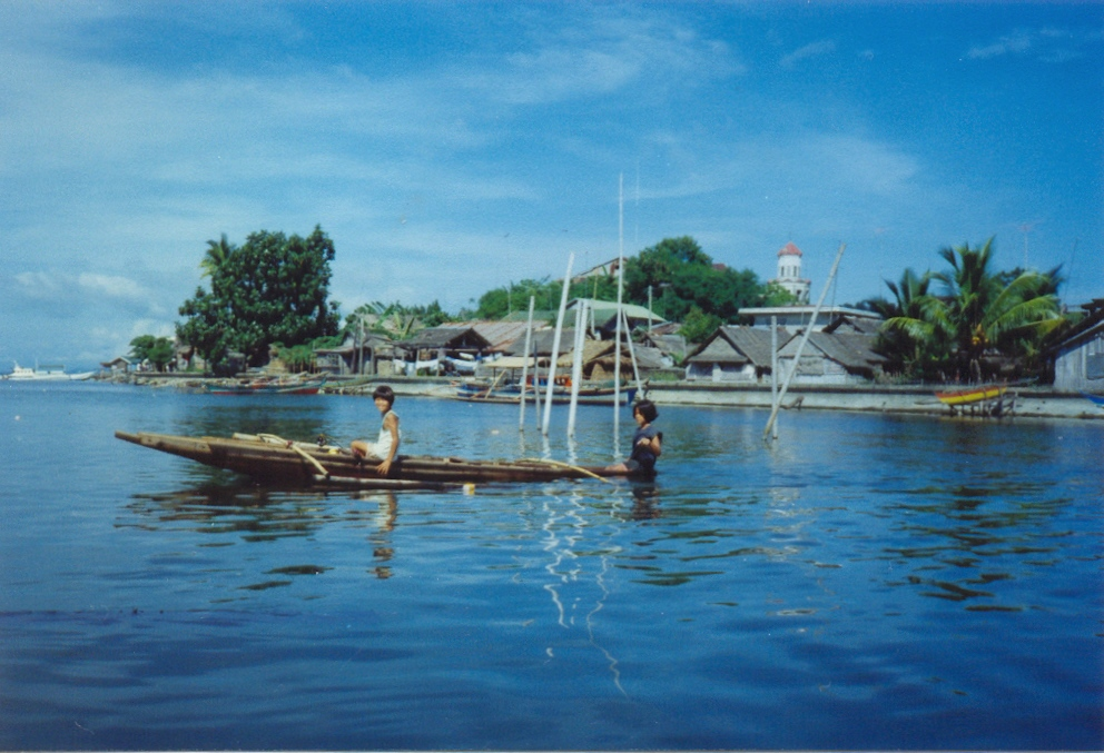 Two children in a local boat in front of Basey, Samar in the Philippines.